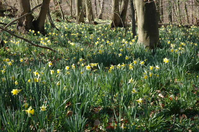 I wander'd lonely as a cloud... Wild daffodils (Narcissus pseudonarcissus) grow in the woods and some fields in the countryside of north-west Gloucestershire around the village of Dymock.